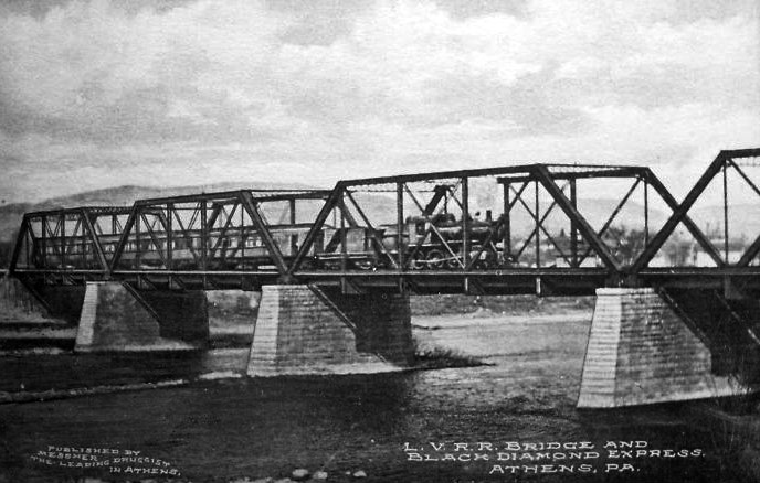 Postcard photo of the Lehigh Valley Railroad's Black Diamond Express on the railroad's bridge at Athens, Pa.